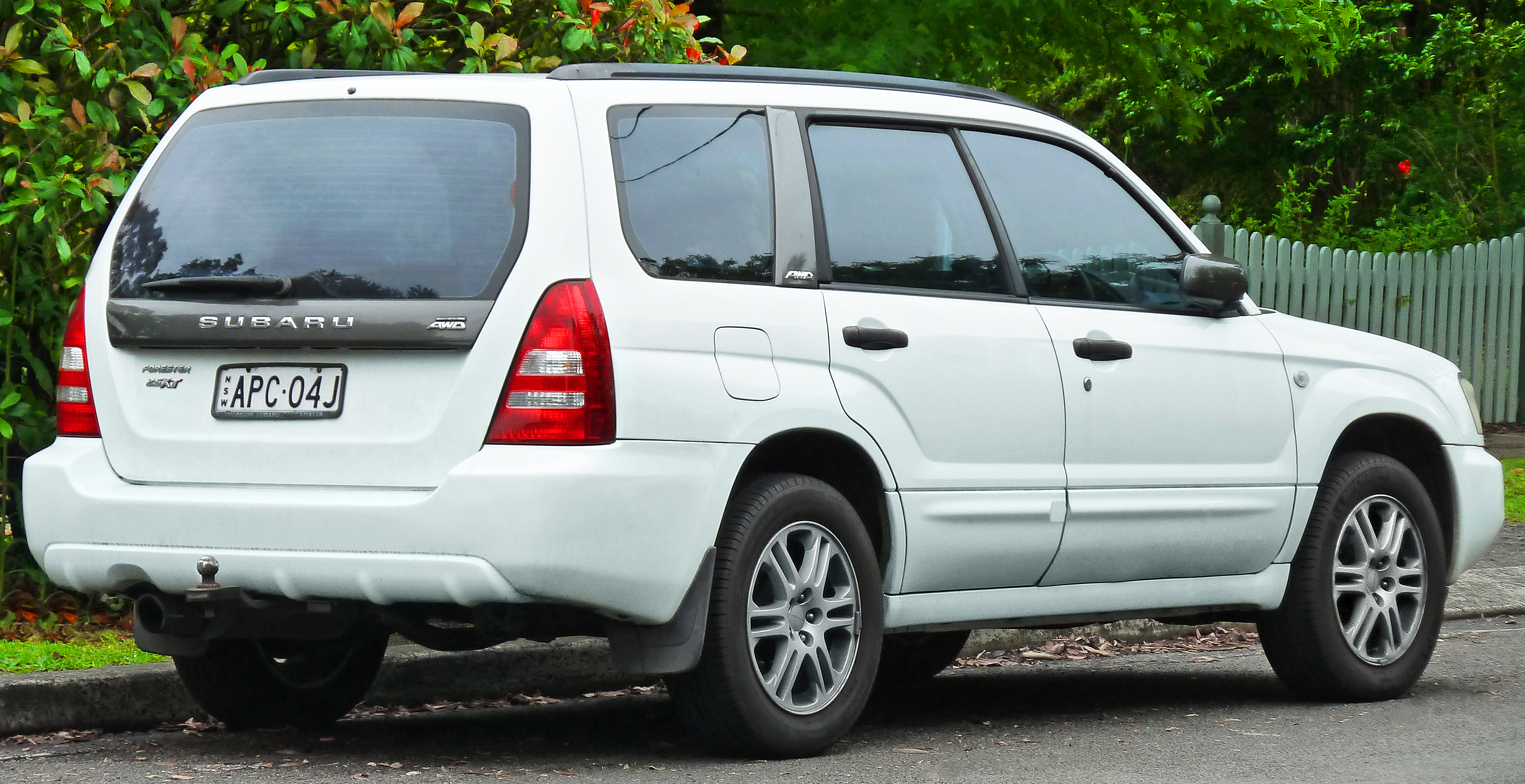 2002–2005 Subaru Forester XT wagon. Photographed in Lindfield, New South Wales, Australia.